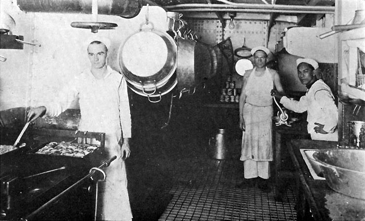 USS Panaman (ID # 3299) Halftone reproduction of a photograph taken in the crew's galley in 1919, while she was serving as a troop transport. This image was published in 1919 as one of ten photographs in a "Souvenir Folder" of views of and on board Panaman. Donation of Dr. Mark Kulikowski, 2006. U.S. Naval Historical Center Photograph.